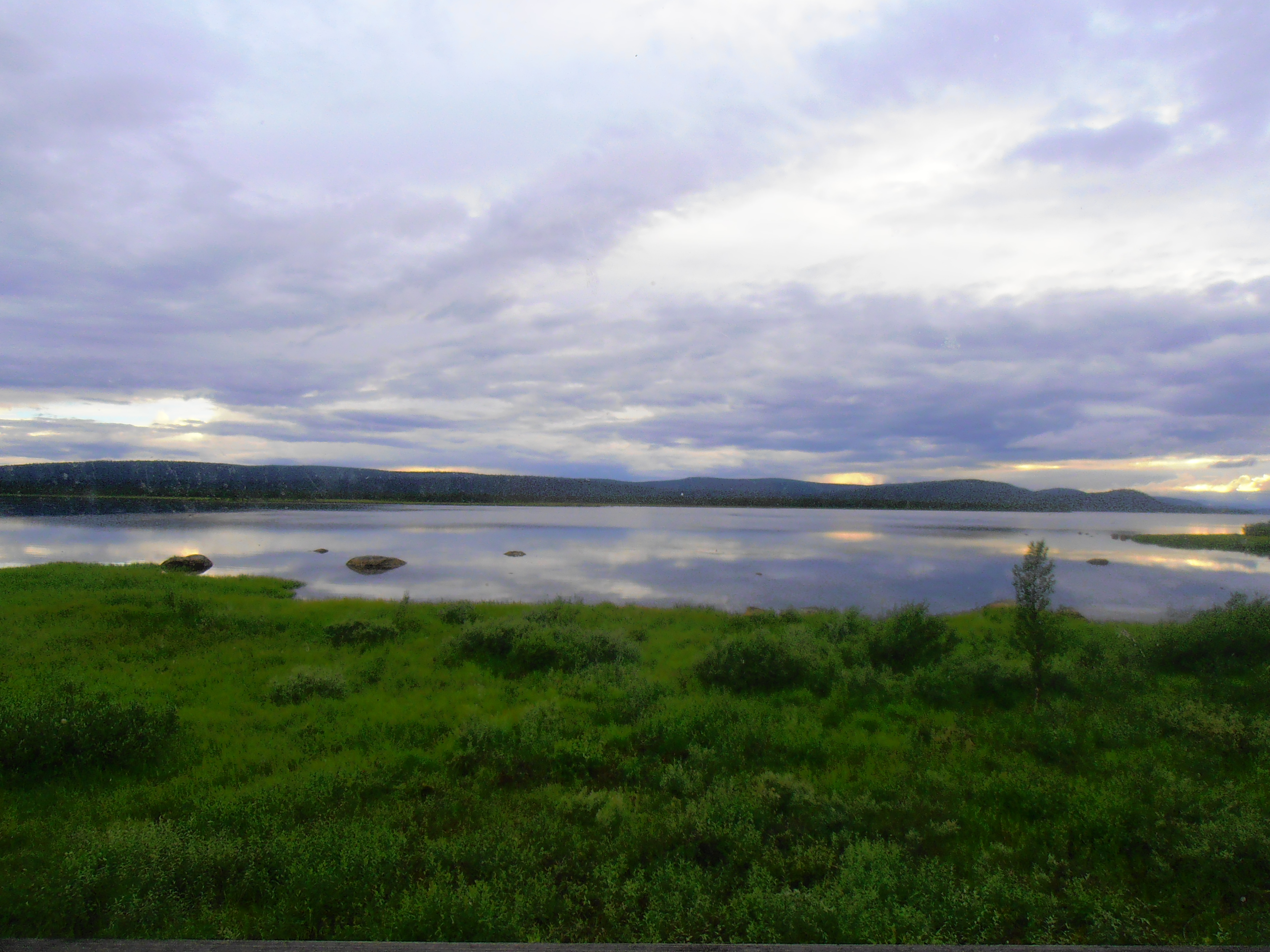 Stora Lulevatten, Gällivare